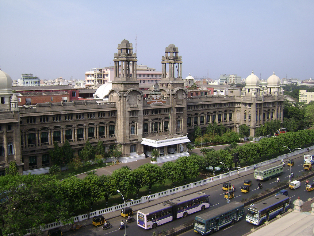 Southern Railway headquarter at Chennai